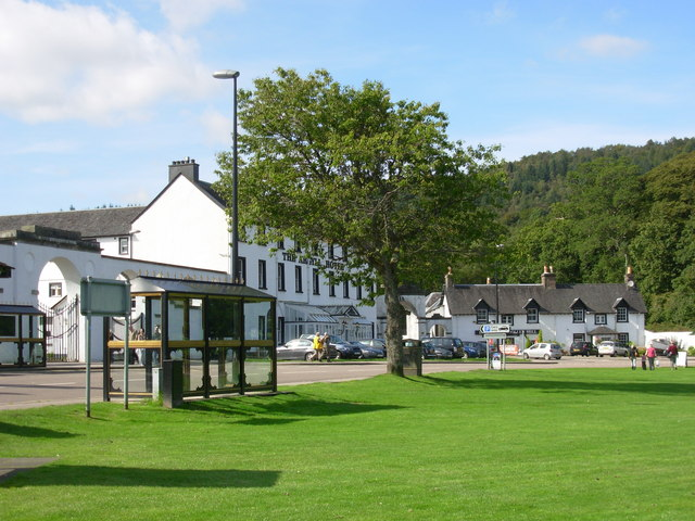 Inveraray - The Argyll Hotel across the green The archway at the left of picture leads to a large car park and the Bell Tower tourist attraction.